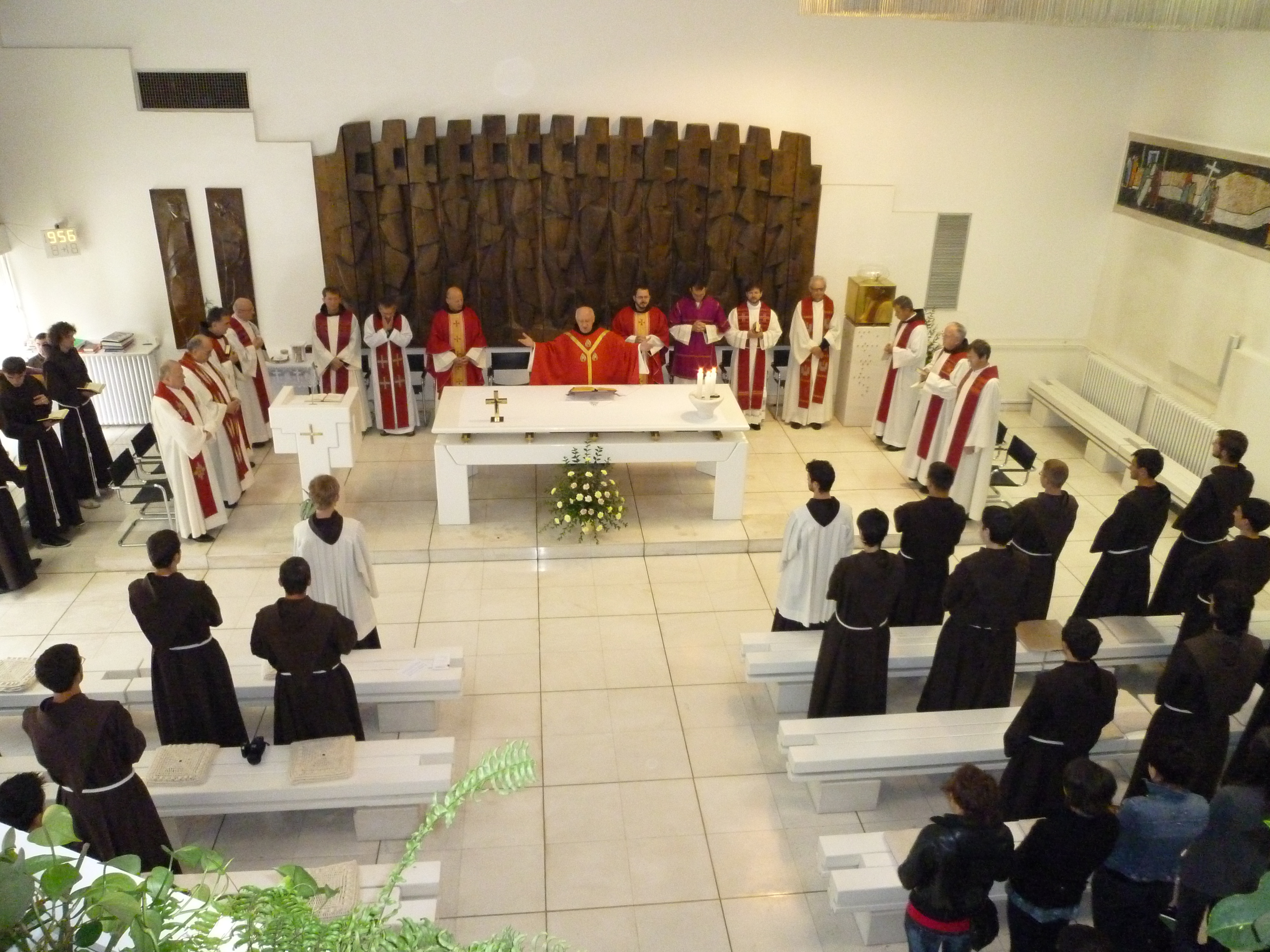 The celebration of the start of the new academic year (2010/2011) in the Franciscan Theological Faculty in Sarajevo